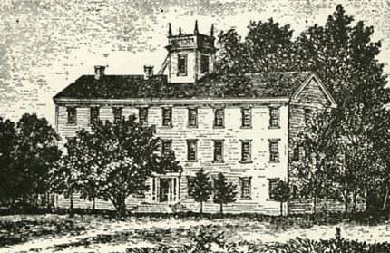 From: Oregon: Her History, Her Great Men, Her Literature. By John B. Horner, first copyright 1919.